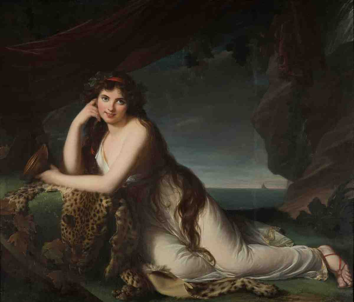 Lady Hamilton as either a bacchante or Ariadne, daughter of King Minos of Crete in Greek mythology, by Élisabeth Louise Vigée Le Brun. Sir William Hamilton commissioned it. Both Hamilton and Nelson greatly admired this portrait. Nelson wrote to Emma on hearing the painting was up for sale: “My dearest friend you are on SALE: I am almost mad to think of the iniquity.” Nelson paid £300 for it, and from then it hung over his bed for the rest of his life.